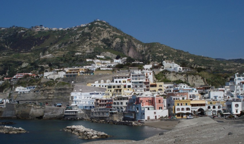 Village of Sant'Angelo, Ischia, Italy